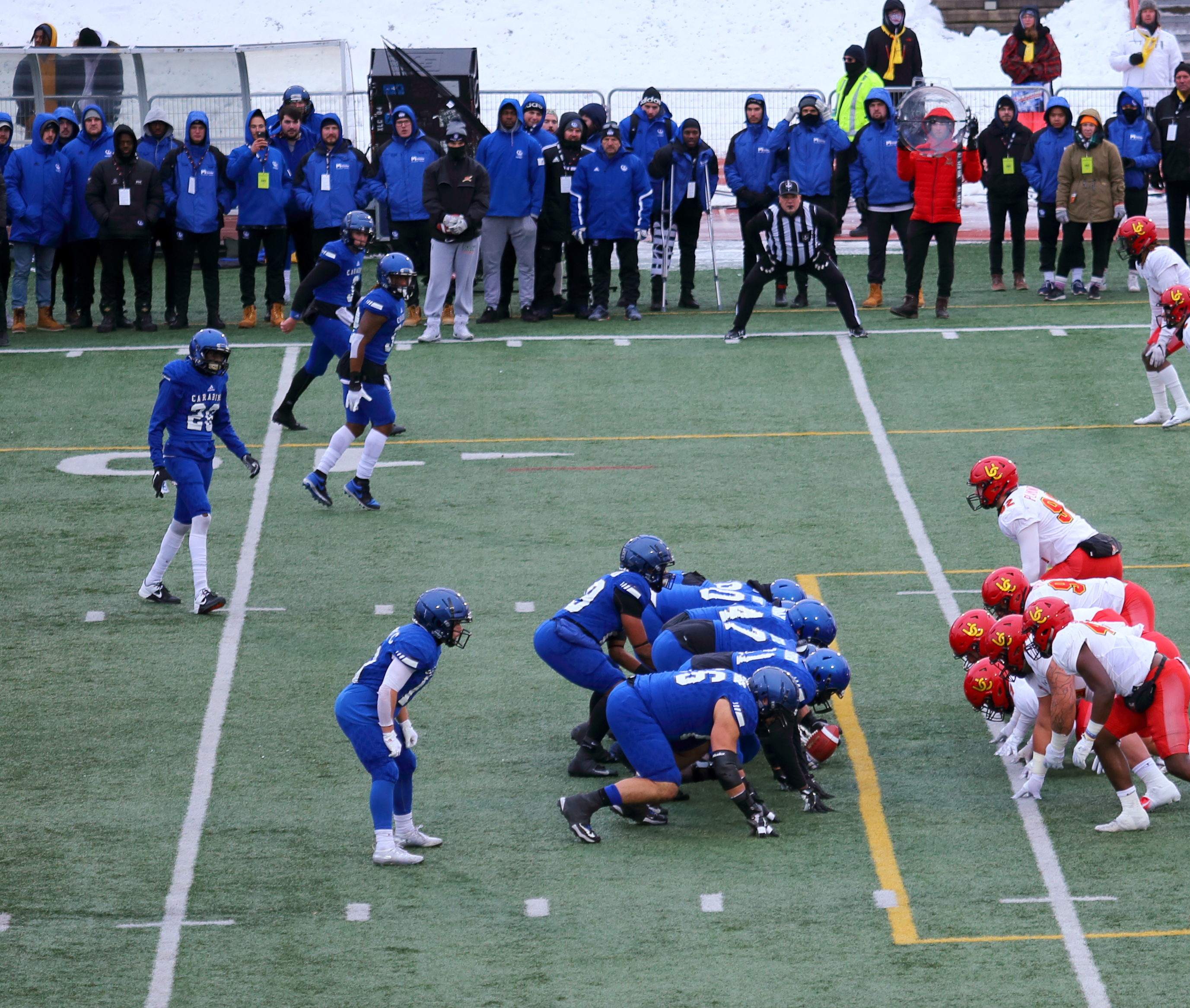 2019 Vanier Cup, 55th edition, at the TELUS-Université Laval stadium. Carabins vs Dino's